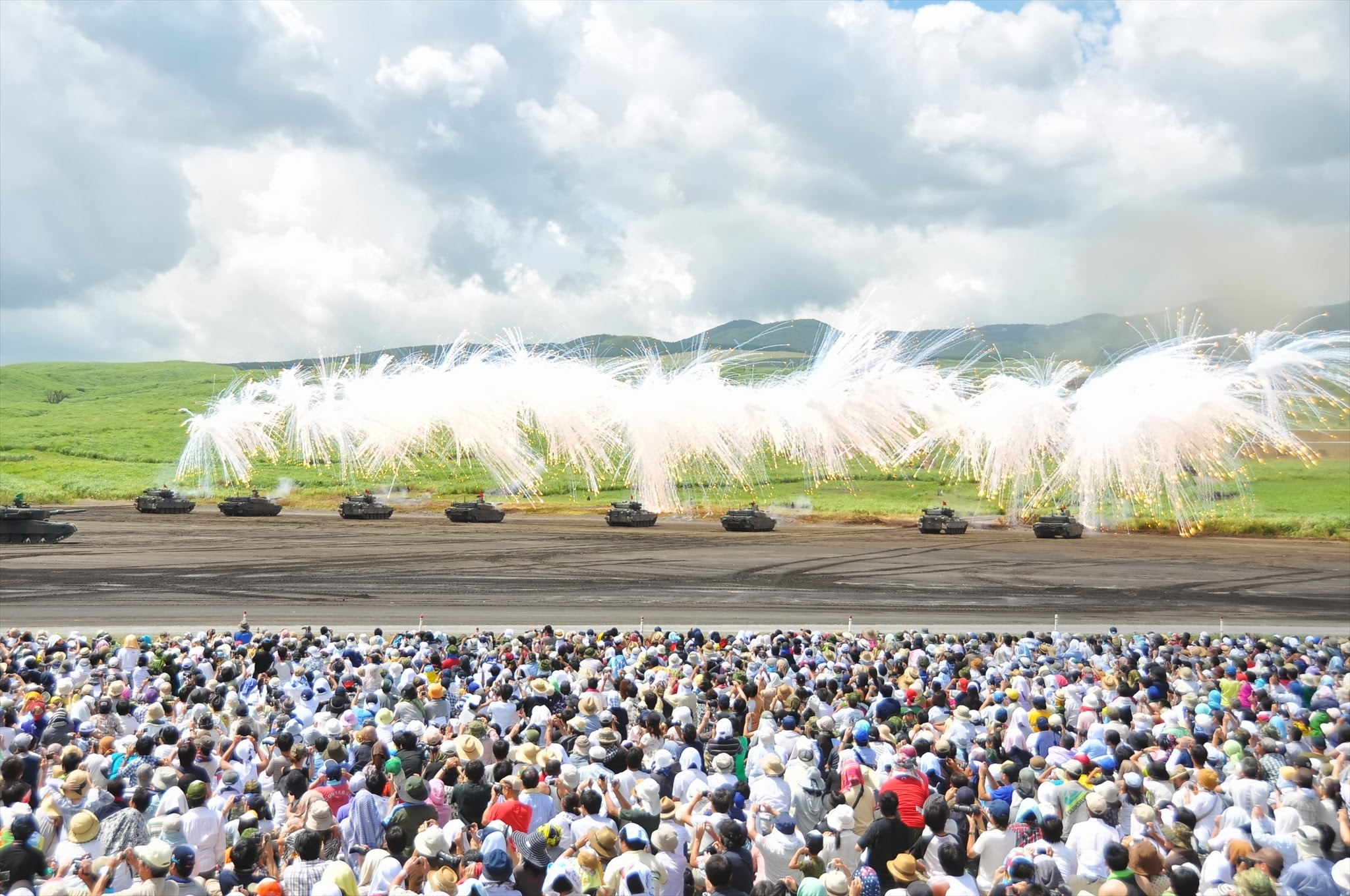 Title フィナーレ.JPG Album 富士総合火力演習・そうかえん 後段演習・戦果拡張